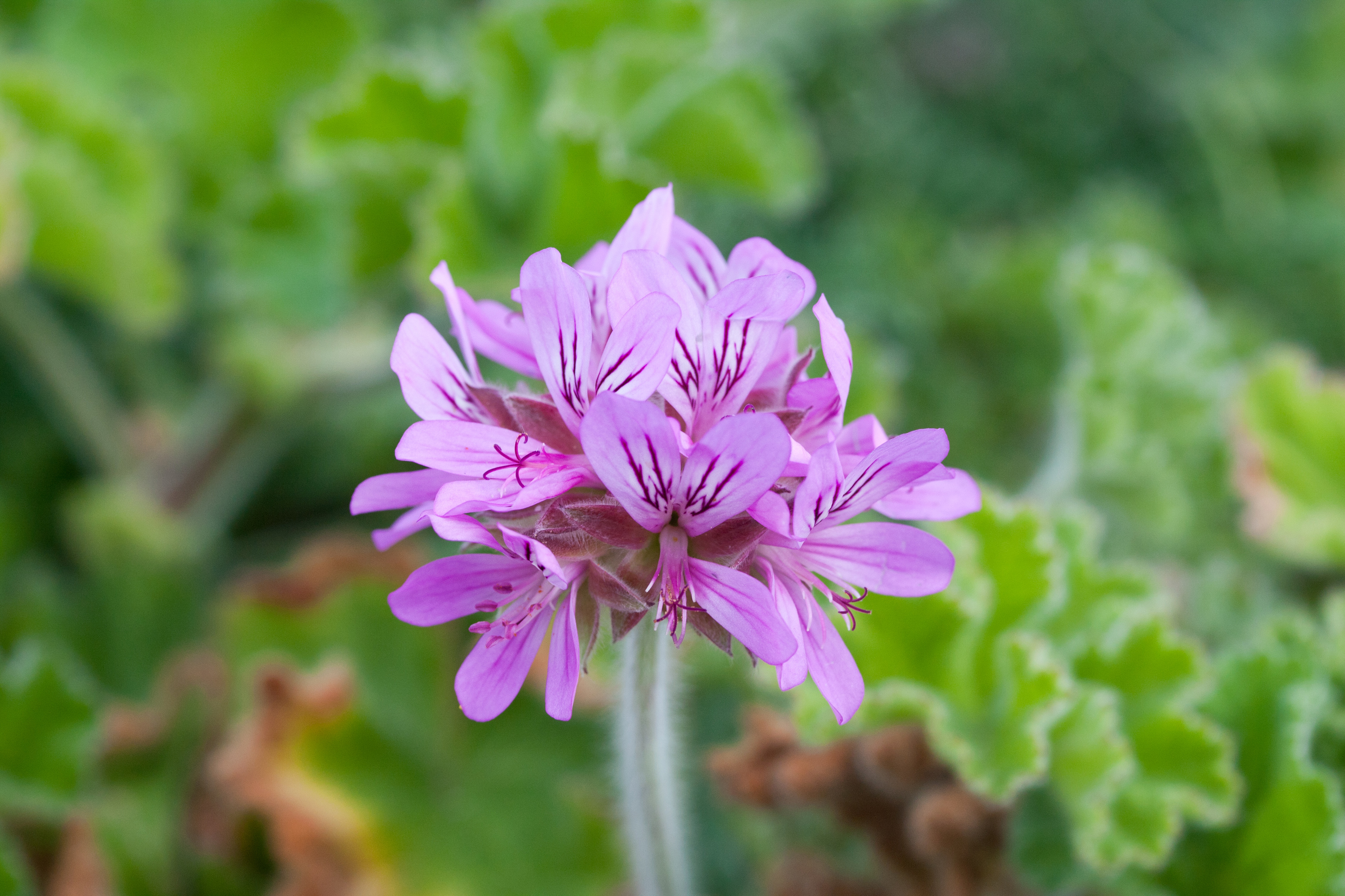 A single inflorescence of the aromatic plant Pelargonium capitatum, photographed in a car parking area on the coastal road into Simon's Town, South Africa.